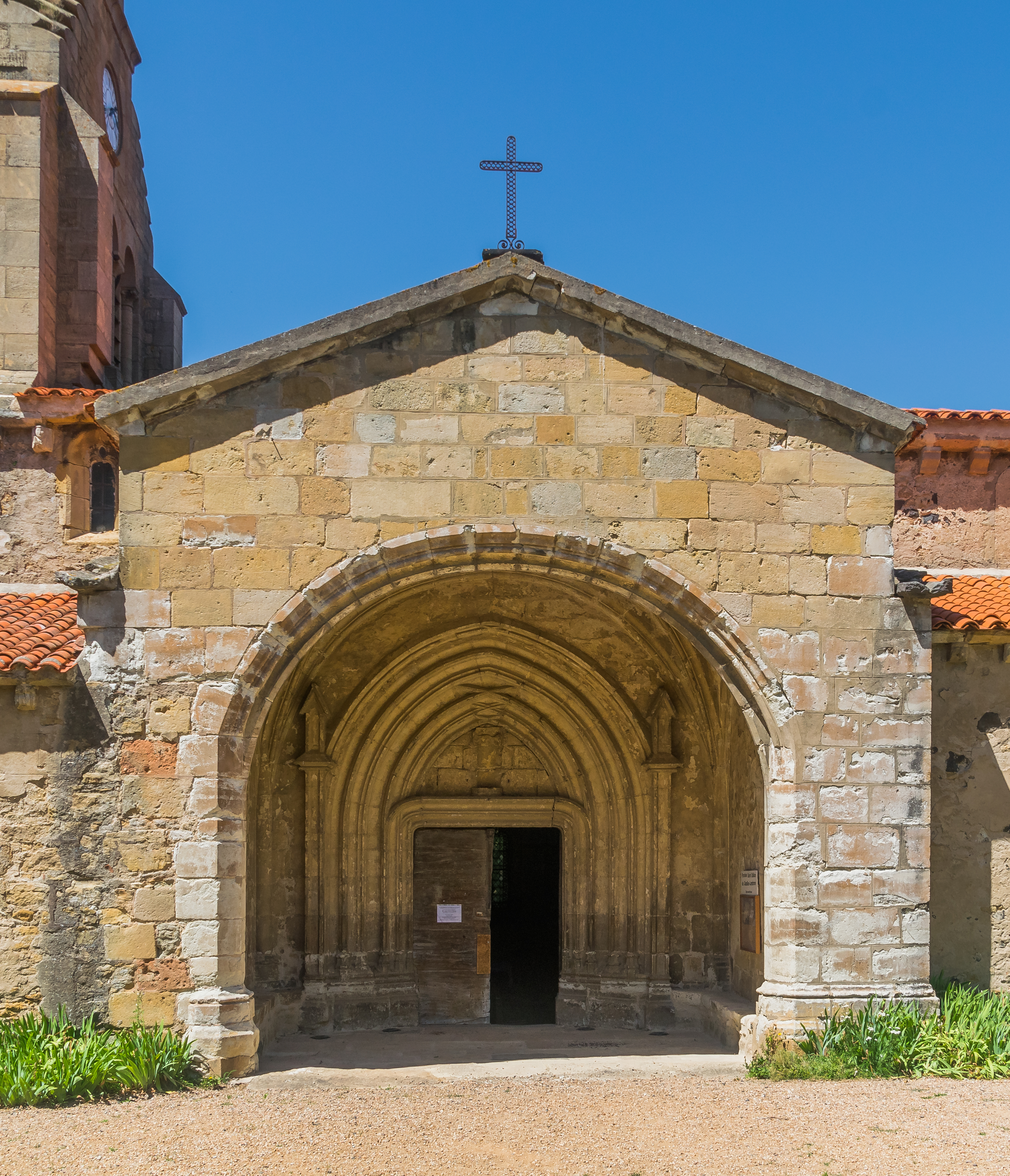 Portal of the Saint Nicholas Church of Nonette, Puy-de-Dôme, France